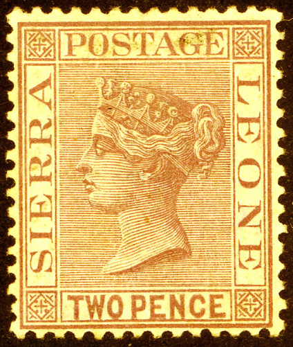 2 pence magenta SG25